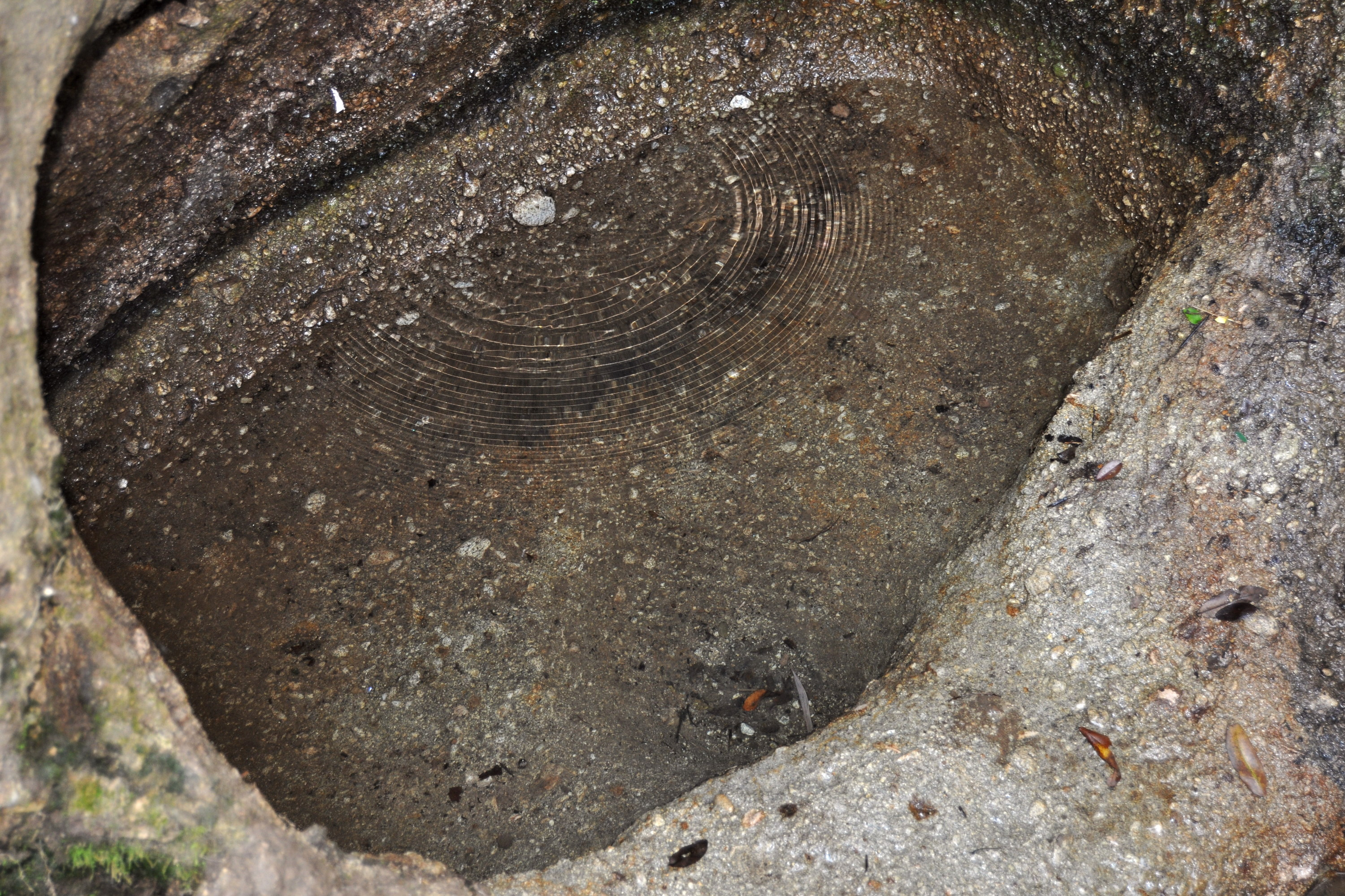 Belik (Javanese), small seep dig by local people at river bank as source of daily water. Ponorogo, East Java, Indonesia.